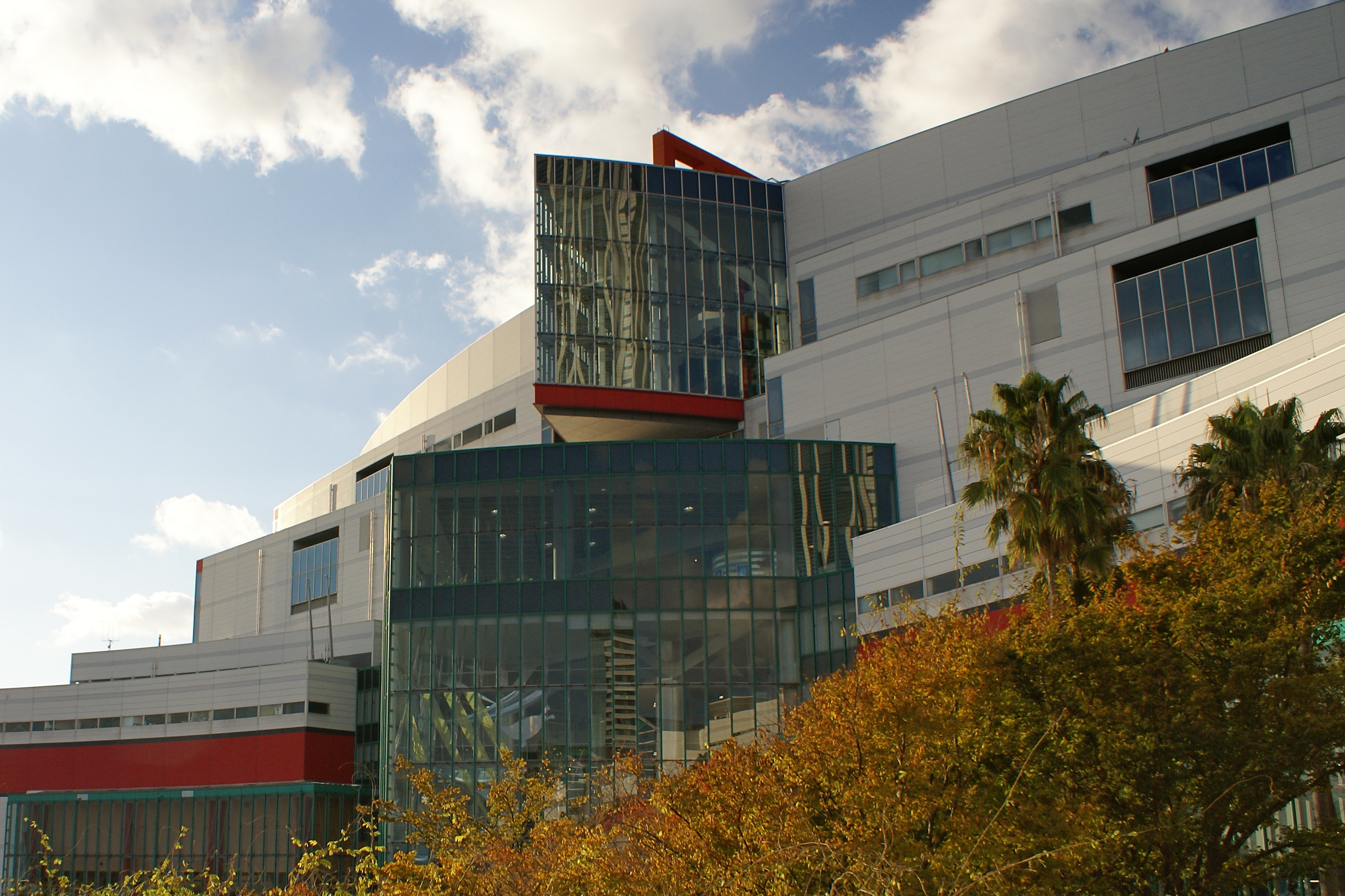 Asia and The Pacific Ocean Trade Center in Osaka, Osaka prefecture, Japan